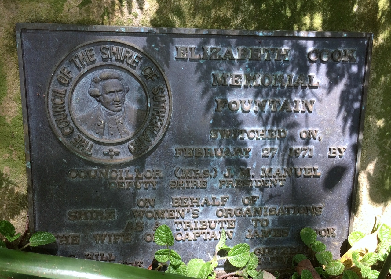 Dedication plaque at memorial fountain for Mrs Elizabeth Batts Cook (wife of Capt. James Cook), in the E.G. Waterhouse National Camellia Garden, Caringbah Australia